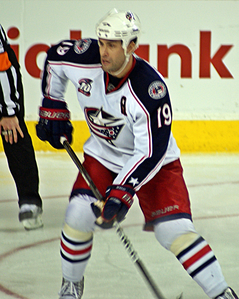 Ethan Byron Moreau, born September 22, 1975 in Huntsville, Ontario, is a Canadian hockey player currently with the Columbus Blue Jackets of the National Hockey League. This NHL game action photo was taken December 13, 2010 at the Scotiabank Saddledome in Calgary, Alberta.